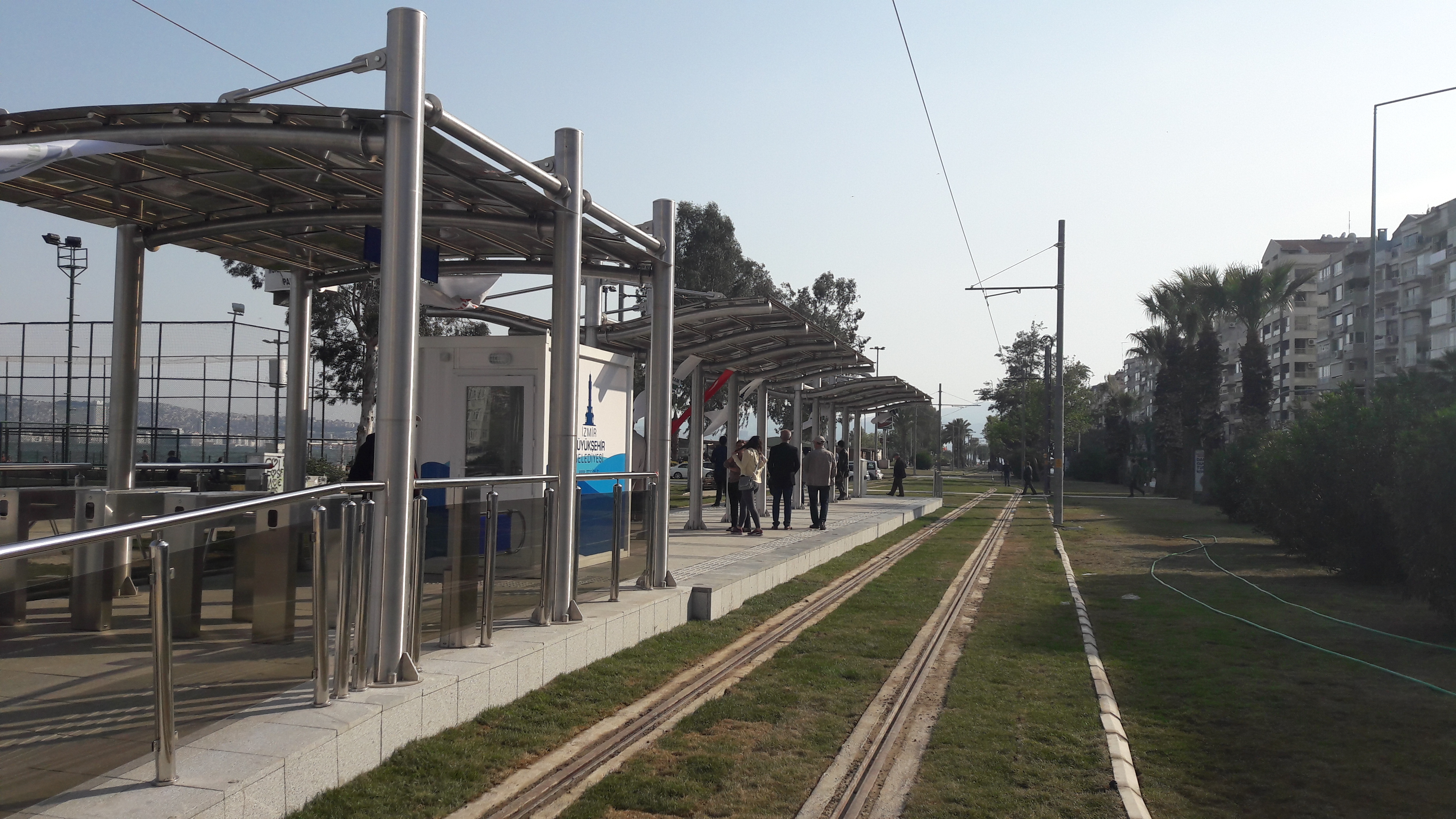 Alaybey tram station.